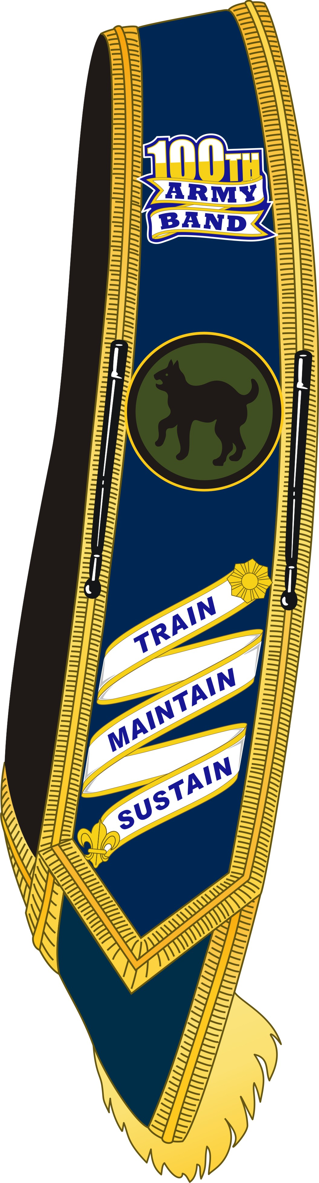 100th Army Band Baldric